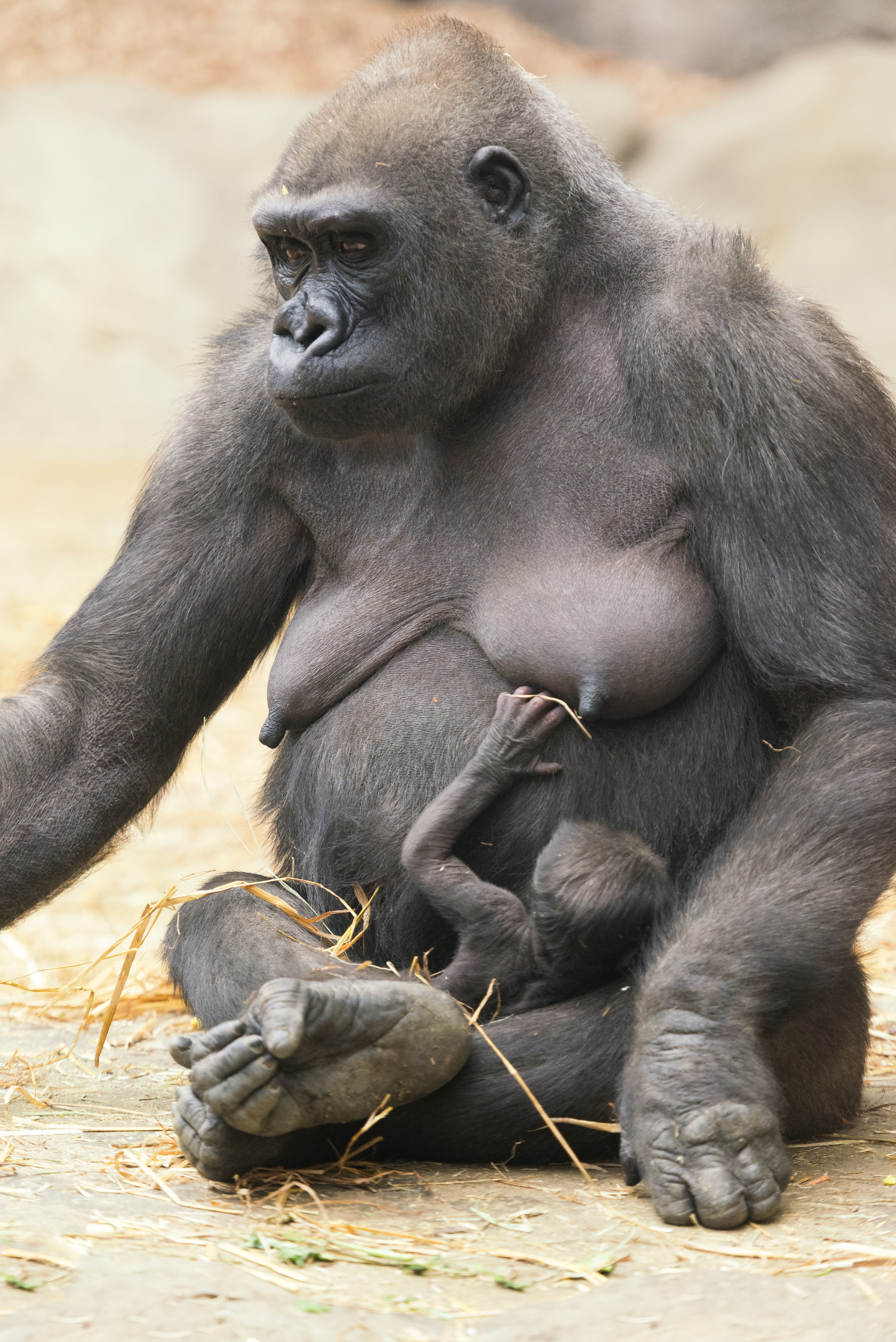 Mom and Baby Gorilla Both Trying to Eat